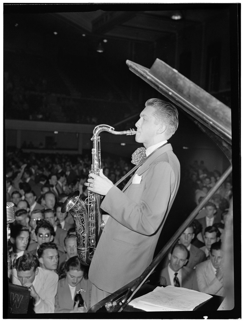 Gottlieb, William P., 1917-, photographer. [Portrait of Bob Cooper, 1947 or 1948] 1 negative : b&w ; 3 1/4 x 4 1/4 in. Notes: Gottlieb Collection Assignment No. 176 Reference print available in Music Division, Library of Congress. Purchase William P. Gottlieb Forms part of: William P. Gottlieb Collection (Library of Congress). Subjects: Cooper, Bob, 1925- Stan Kenton Orchestra Jazz musicians--1940-1950. Saxophonists--1940-1950. Format: Portrait photographs--1940-1950. Group portraits--1940-1950. Film negatives--1940-1950. Rights Info: Mr. Gottlieb has dedicated these works to the public domain, but rights of privacy and publicity may apply. Repository: (negative) Library of Congress, Prints & Photographs Division, Washington D.C. 20540 USA, (reference print) Library of Congress, Music Division, Washington D.C. 20540 USA, Part Of: William P. Gottlieb Collection (DLC) 99-401005 General information about the Gottlieb Collection is available at Persistent URL: Call Number: LC-GLB23- 0523 This work is from the William P. Gottlieb collection at the Library of Congress. Rights and restrictions. In accordance with the wishes of William Gottlieb, the photographs in this collection entered into the public domain on February 16, 2010.